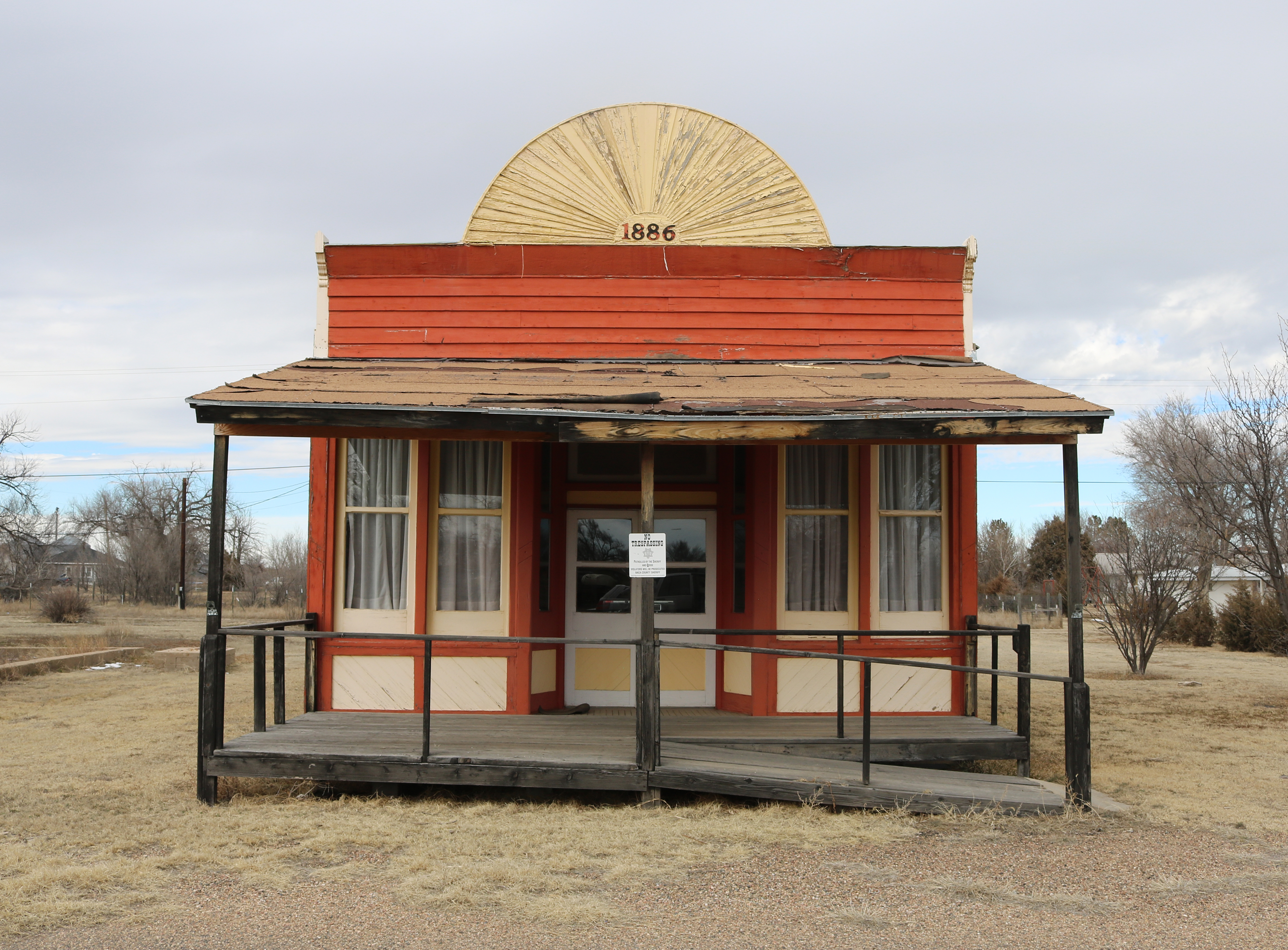 An old building in Vilas, Colorado. The story goes that this building, originally a saloon, was built in Boston, a town in Baca County founded in 1885 that no longer exists. The saloon was moved to Vilas at some point and has functioned as a private museum.